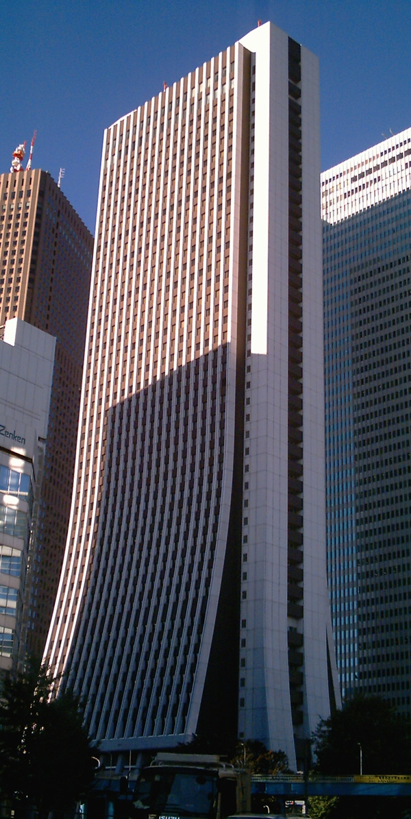 Sompo Japan Insurance_Office_Building_Shinjuku Tokyo Japan